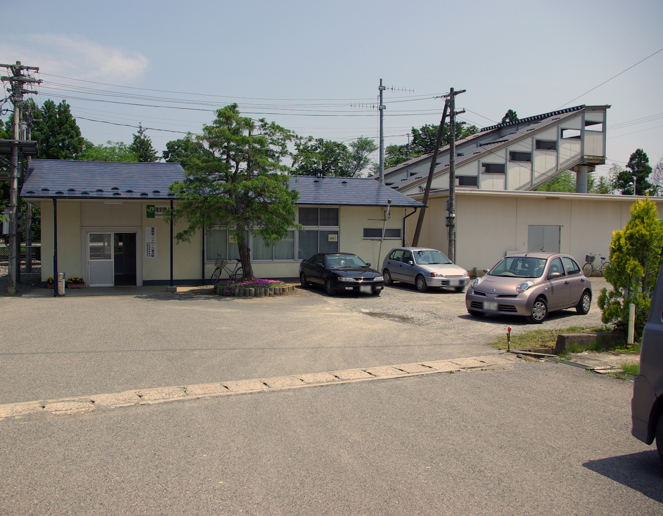 Rikuzen-Hashikami Station on Kesennuma Line